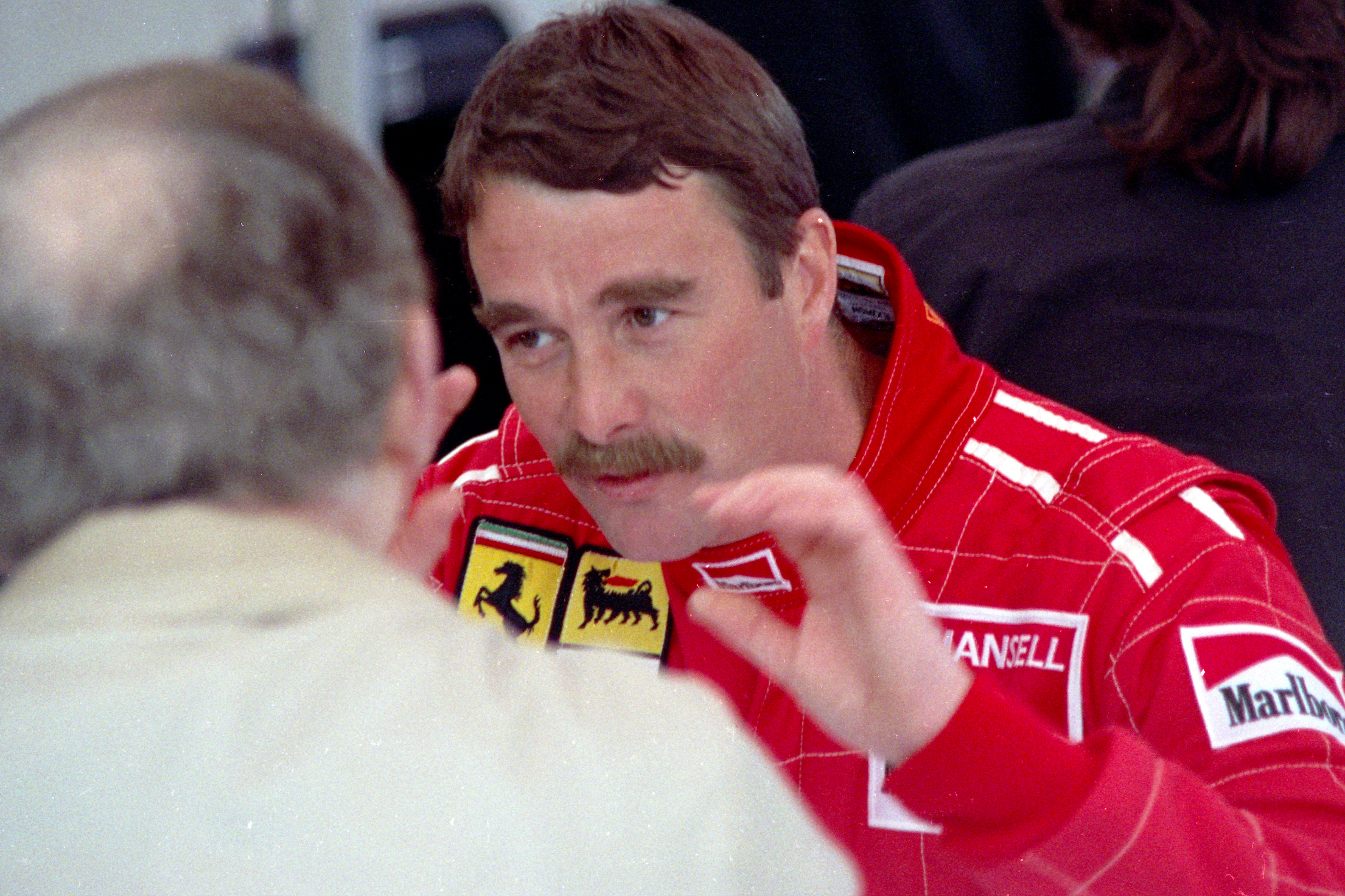 Nigel Mansell at the 1990 United States Grand Prix.